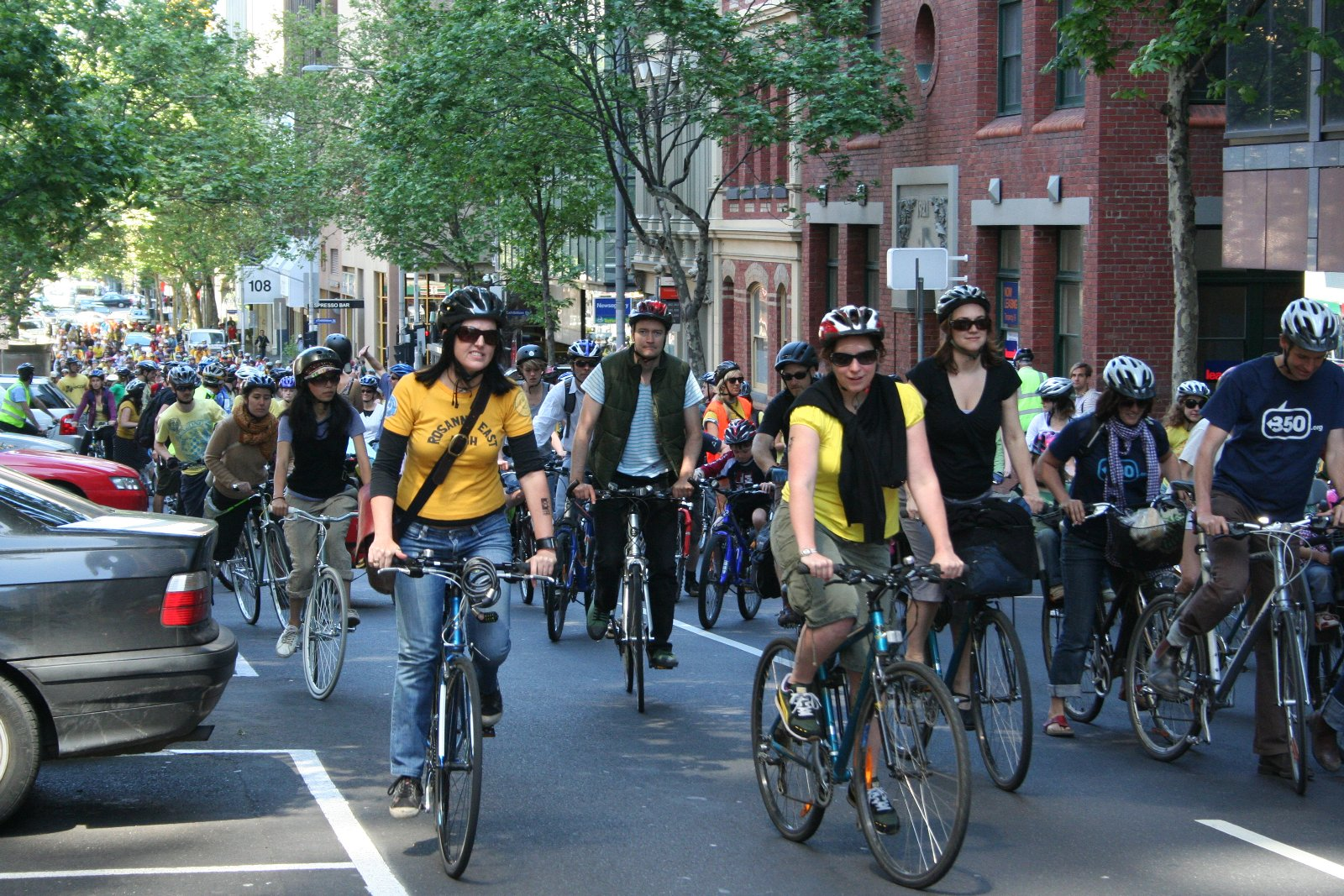 Cyclists riding for the 350 climate action. Melbourne, October 24, 2009.